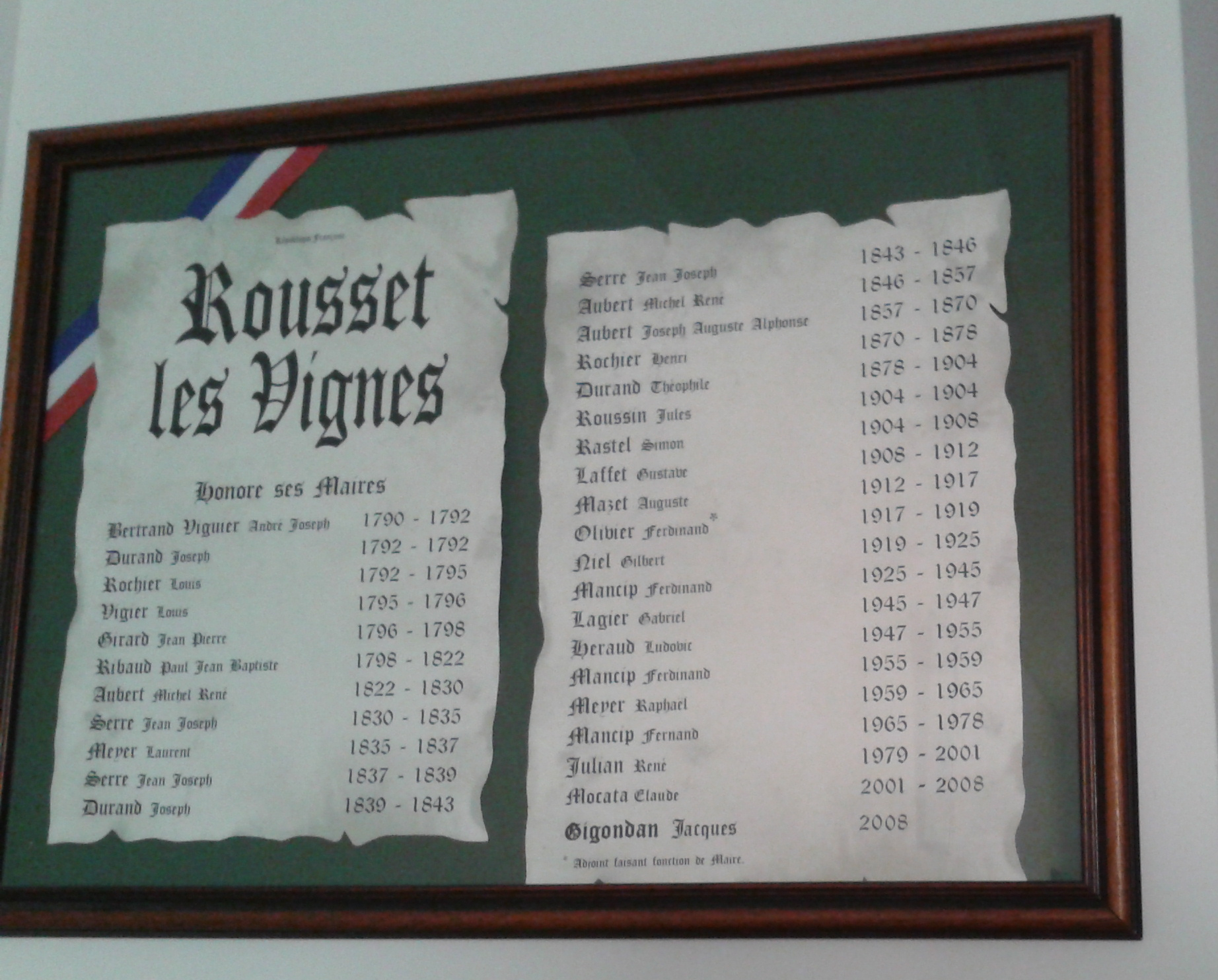 List of mayors of Rousset-les-Vignes as of 19 February 2015.